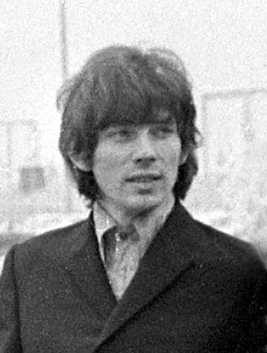 Manfred Mann & Dave Berry arriving at Schiphol Airport, the Netherlands, 11 Sept. 1967. Left to right: Tom McGuinness, Dave Berry, Klaus Voormann, Mike Hugg, Manfred Mann, Mike d'Abo.